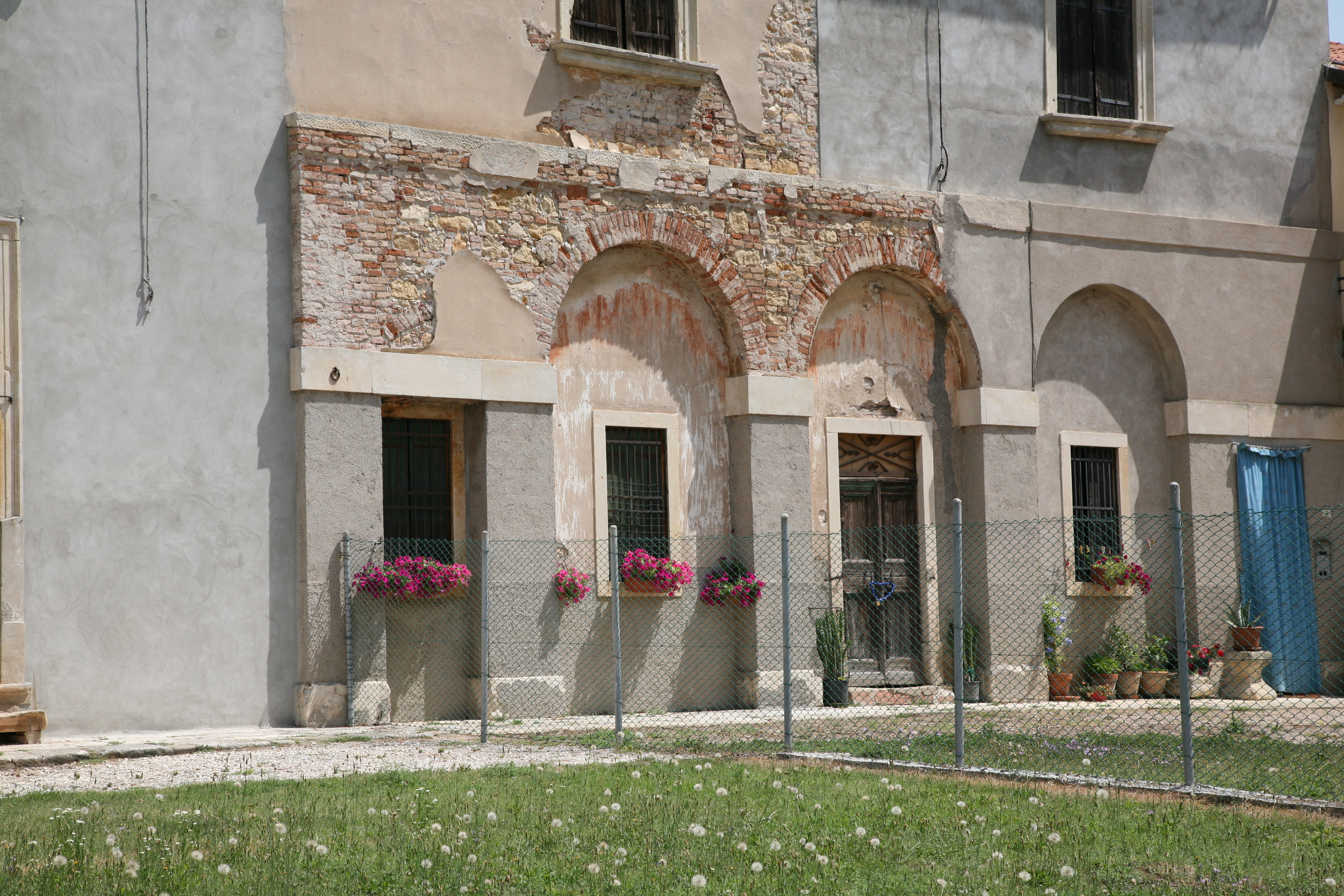 Villa Arnaldi at Meledo di Sarego is an unfinished project by Andrea Palladio